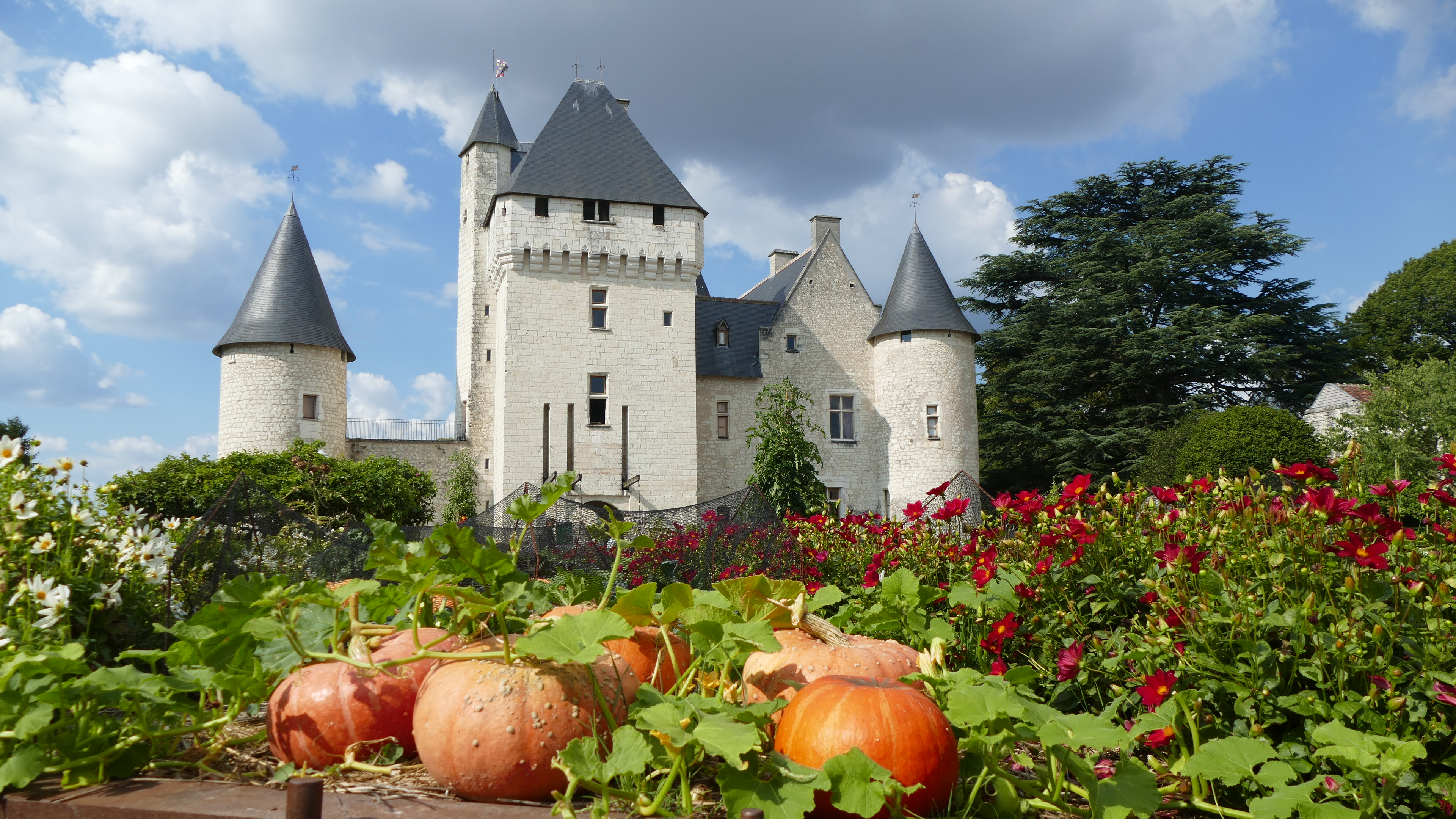 Castle Château du Rivau, France